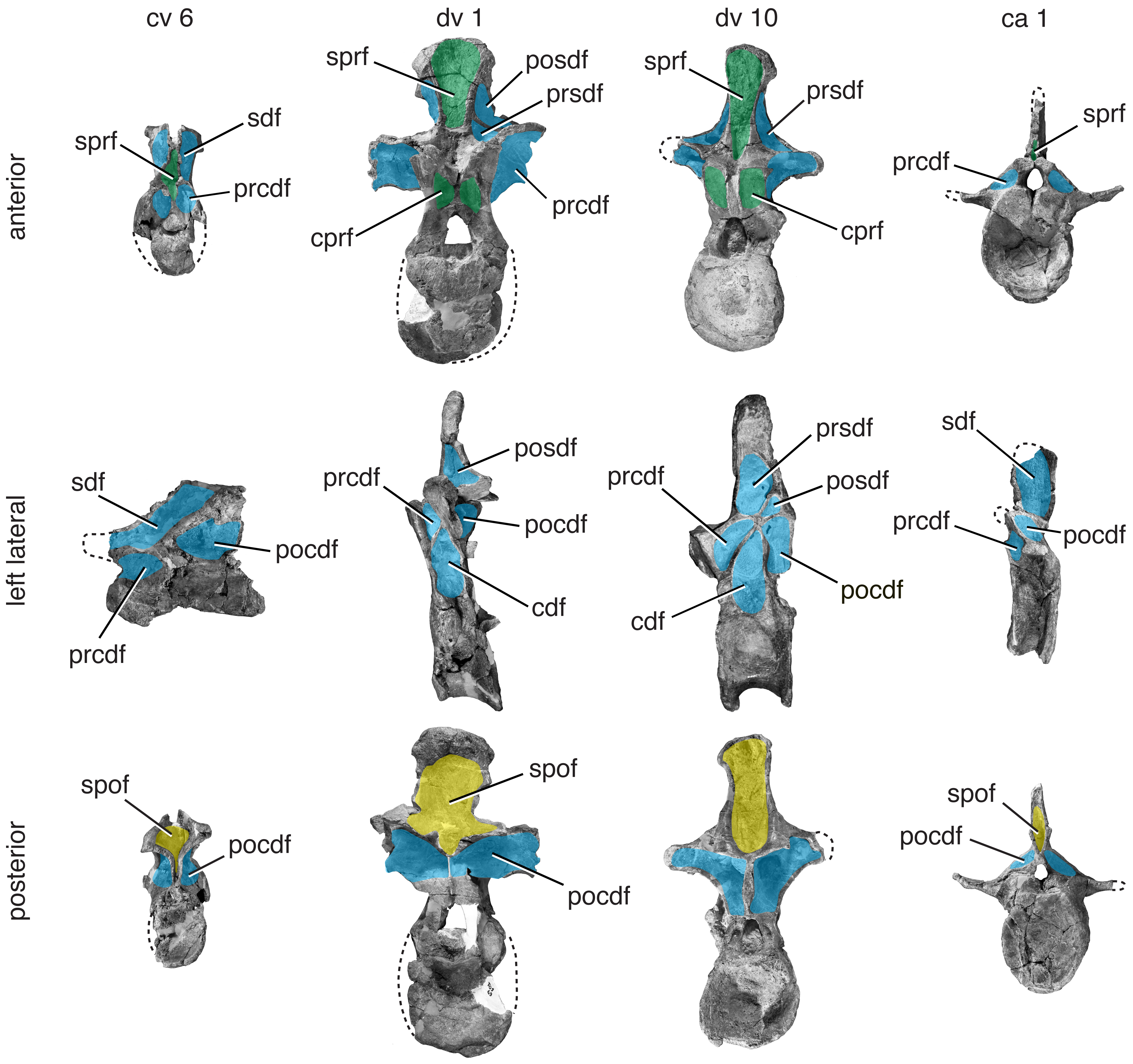 Representative vertebrae of Tazoudasaurus naimi. Anterior (top), left lateral (middle), and posterior (bottom) views of mid-cervical (ca. cv 6), anterior dorsal (ca. dv 1), posterior dorsal (ca. dv 10), and anterior caudal (ca. ca 1) vertebrae. Specimens come from several individuals referred to Tazoudasaurus and are scaled relative to one another. Mid-cervical vertebra CSPGM To1-354 is reversed from the original right lateral view. Important changes include reduction of the size of the cdf along the vertebral column. Diapophyseal fossae are in blue, prezygapophyseal fossae are in green, postzygapophyseal fossae are in yellow, and parapophyseal fossae are in orange. Images are modified from [29]:figs. 9, 11, 14–16). Abbreviations, ca, caudal vertebra; cdf, centrodiapophyseal fossa; cpol-f, centropostzygapophyseal lamina fossa; cpaf, centroparapophyseal fossa; cpof, centropostzygapophyseal fossa; cprf, centroprezygapophyseal fossa; cprl-f, centroprezygapophyseal lamina fossa; cv, cervical vertebra; dv, dorsal vertebra; pa, parapophysis; pacdf, parapophyseal centrodiapophyseal fossa; pacprf, parapophyseal centroprezygapophyseal fossa; pocdf, postzygapophyseal centrodiapophyseal fossa; posdf, postzygapophyseal spinodiapophyseal fossa; prcdf, prezygapophyseal centrodiapophyseal fossa; prcpaf, prezygapophyseal centroparapophyseal fossa; prpadf, prezygapophyseal paradiapophyseal fossa; prsdf, prezygapophyseal spinodiapophyseal fossa; sdf, spinodiapophyseal fossa; spdl, spindodiapophyseal lamina; spof, spinopostzygapophseal fossa; sprf, spinoprezygapophseal fossa; sprl, spinoprezygapophyseal lamina; spol-f, spinopostzygapophyseal lamina fossa.